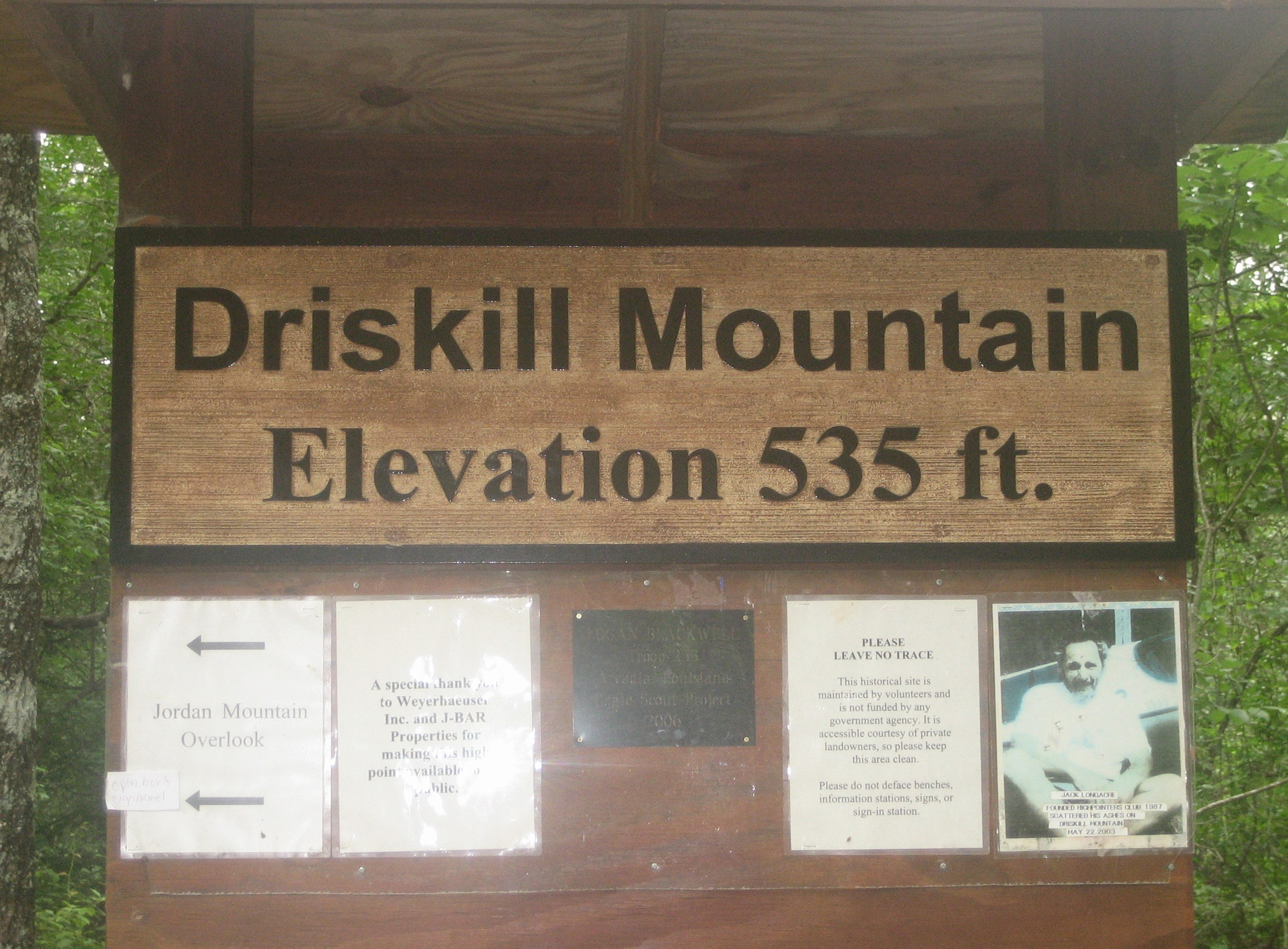 Elevation sign and registry on top of Driskill Mountain, highest point in Louisiana